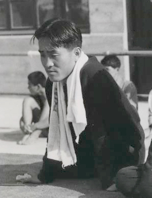 1932 Press Photo T. Gon, S. Tusuda. O. Kin, Japanese Olympic Runners Los Angeles